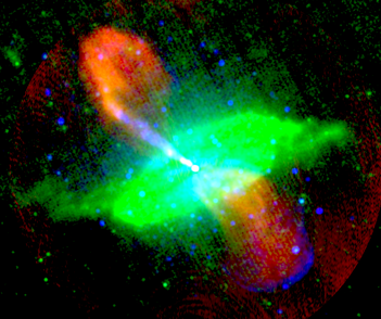 Centaurus A in radio, 24-micron infrared and X-ray.